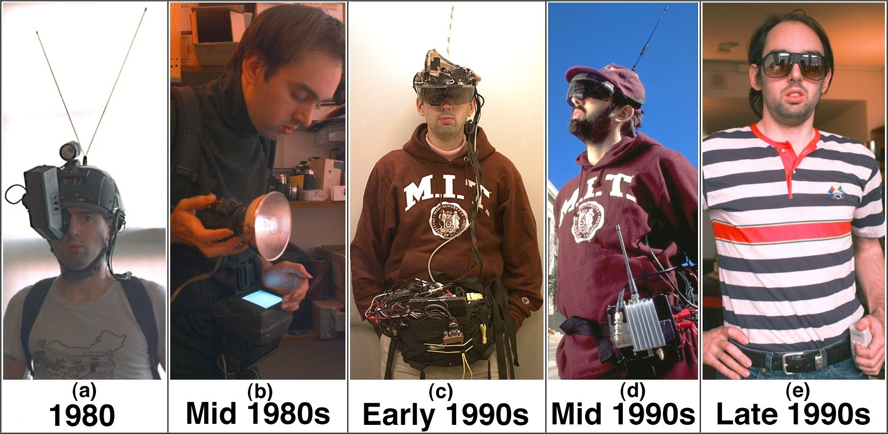 This depicts the evolution of wearable computers. for the original JPEG file.